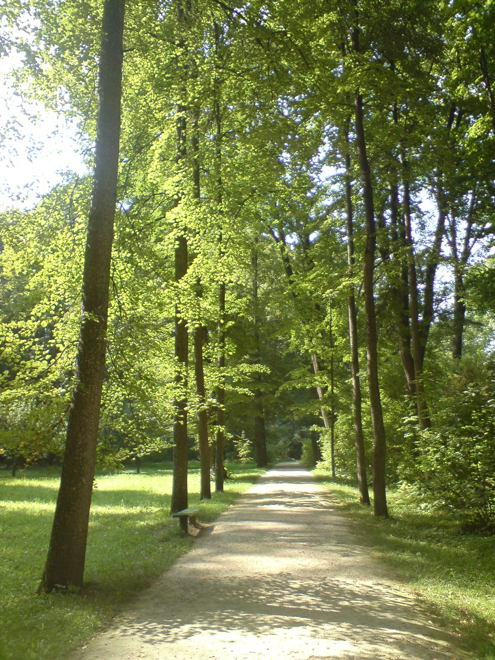 Spasskoye-Lutovinovo, а country estate of Ivan Turgenev.